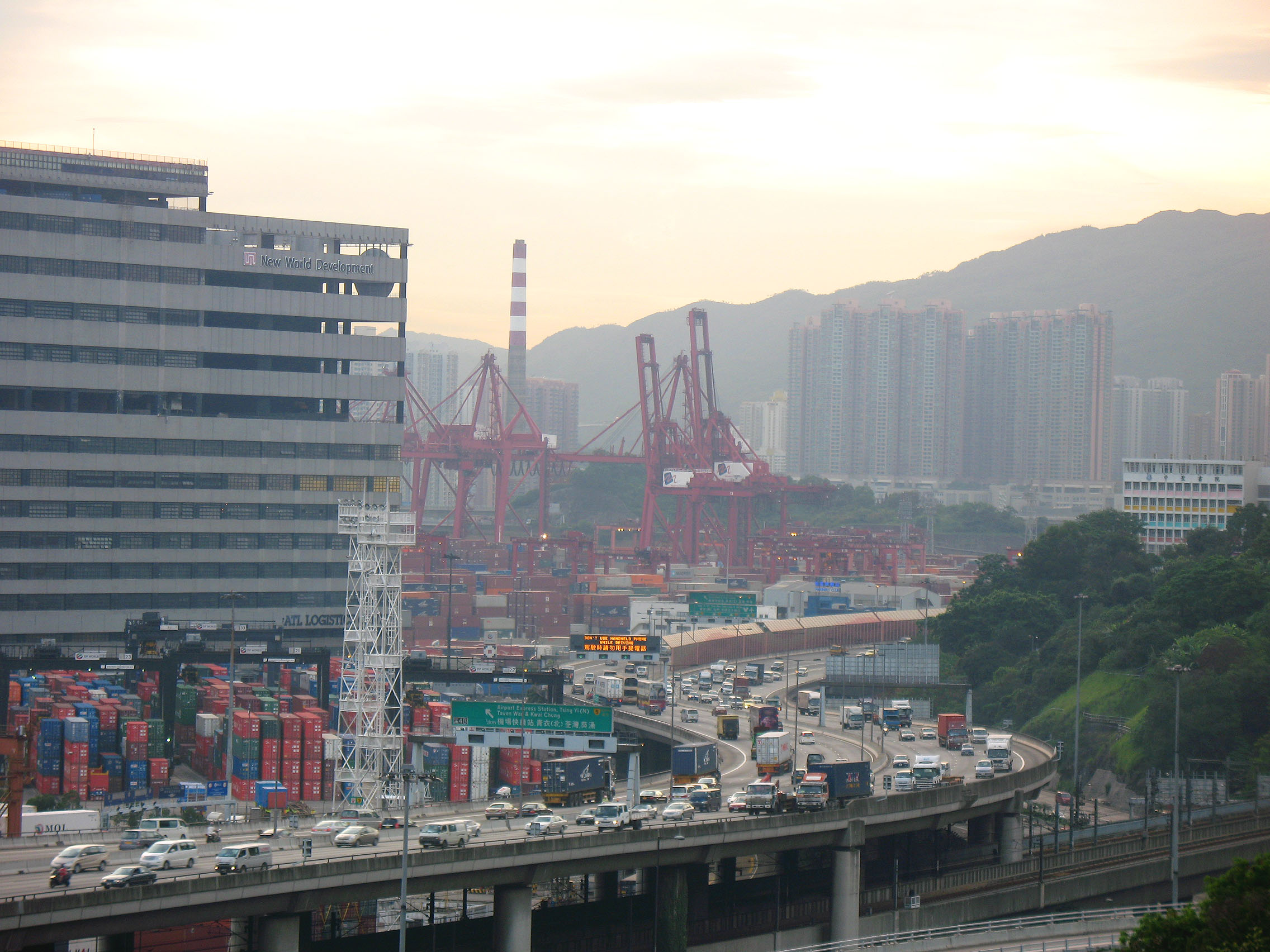 Tsing Kwai Highway at sunset. 中文（香港）: 黃昏時的青葵公路。